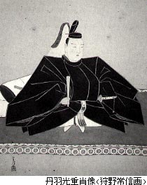 Niwa Mitsushige, lord of the Shirakawa domain, then moved to Nihonmatsu domain.